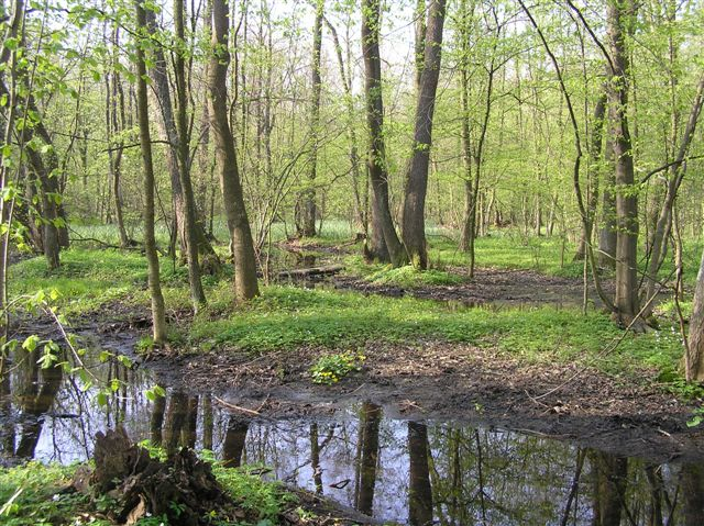 Natural preserve "Majdan"